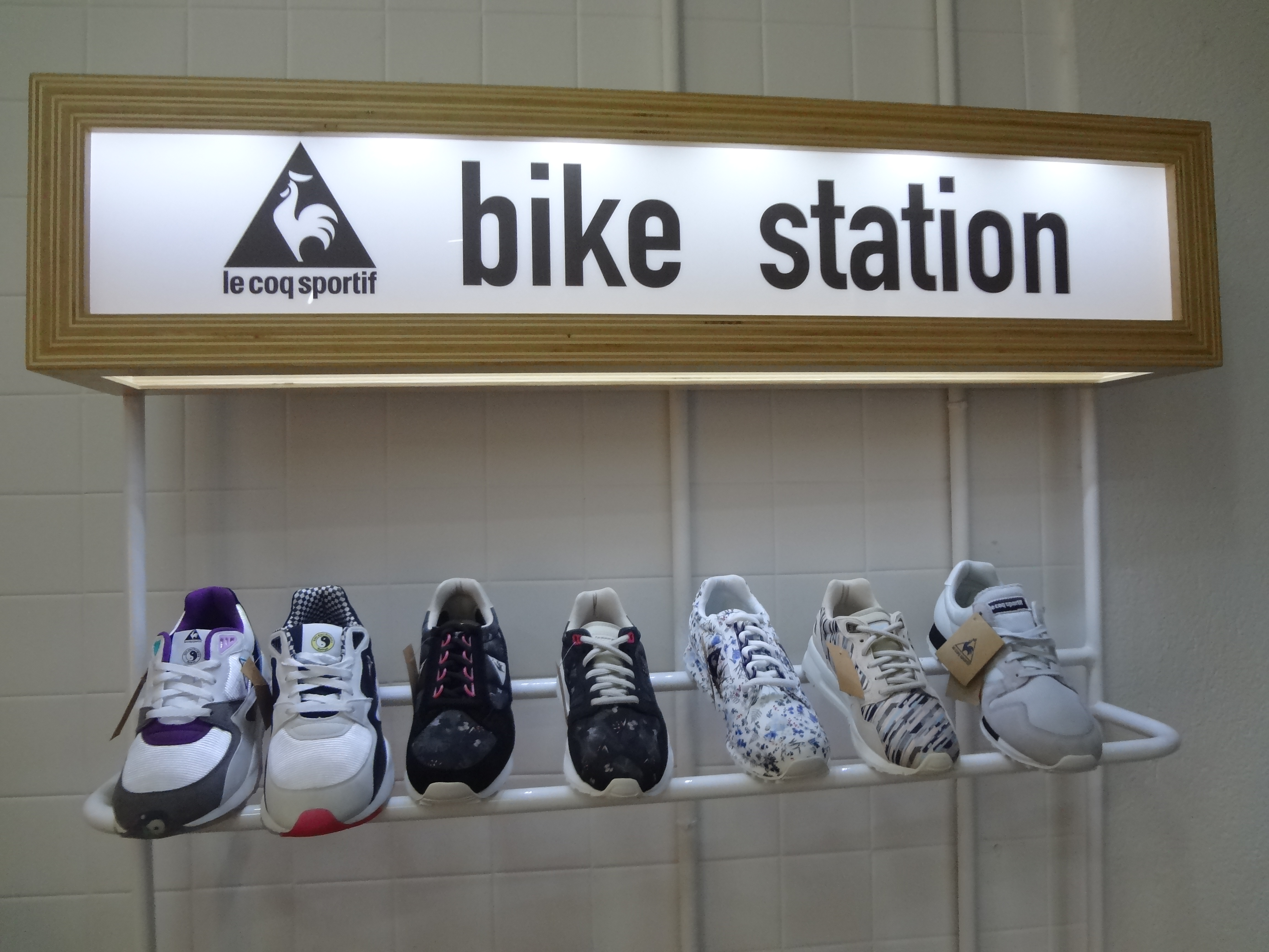 Photography by David Adam Kess Madrid, Spain Author, DAVID ADAM KESS (near the Bilbao Metro, Madrid) Photographed by David Adam Kess